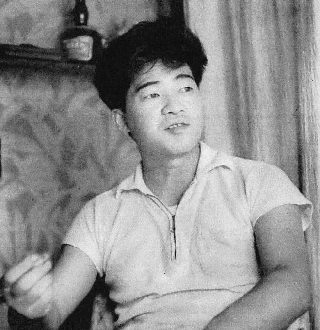 Kobo Abe